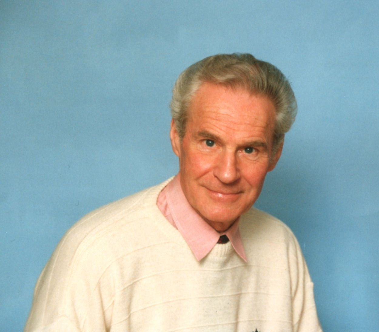 Alex Macintosh, newscaster